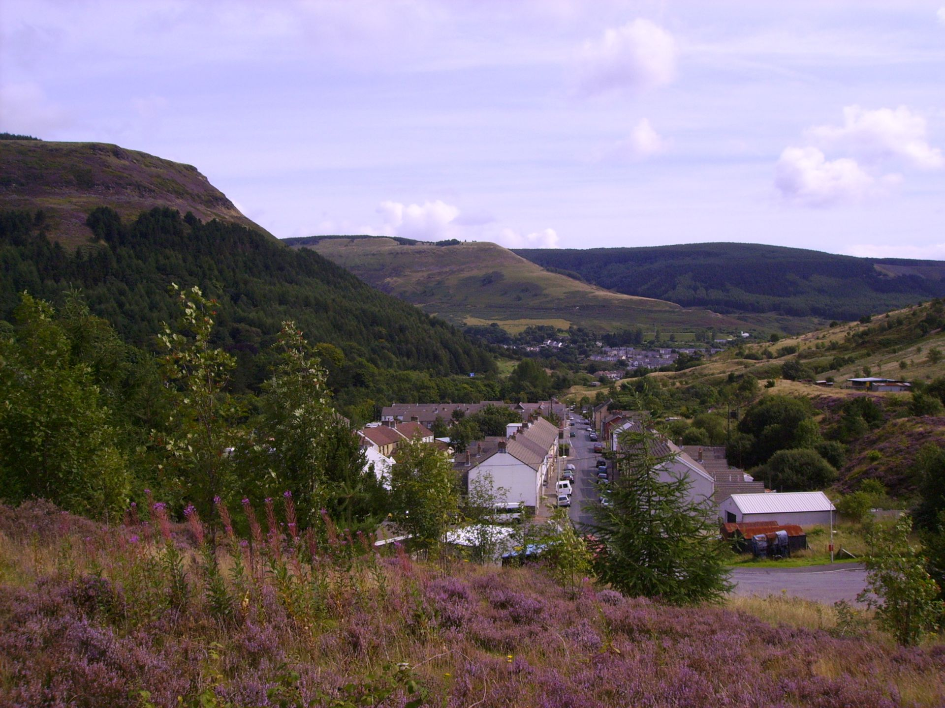 Blaencwm, Rhondda looking towards Tynewydd. Wales